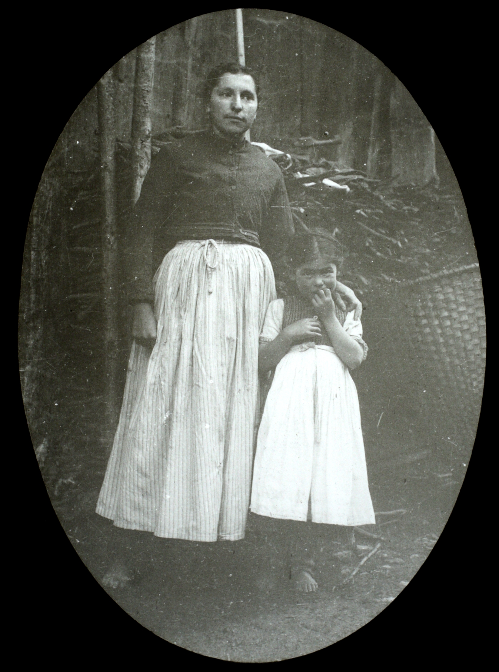 Girls at Forchach _ Stubaithal Tyrol. Original photo by A.E.Hasse Baildon Yorks. On 6x6 glass plate diapositive